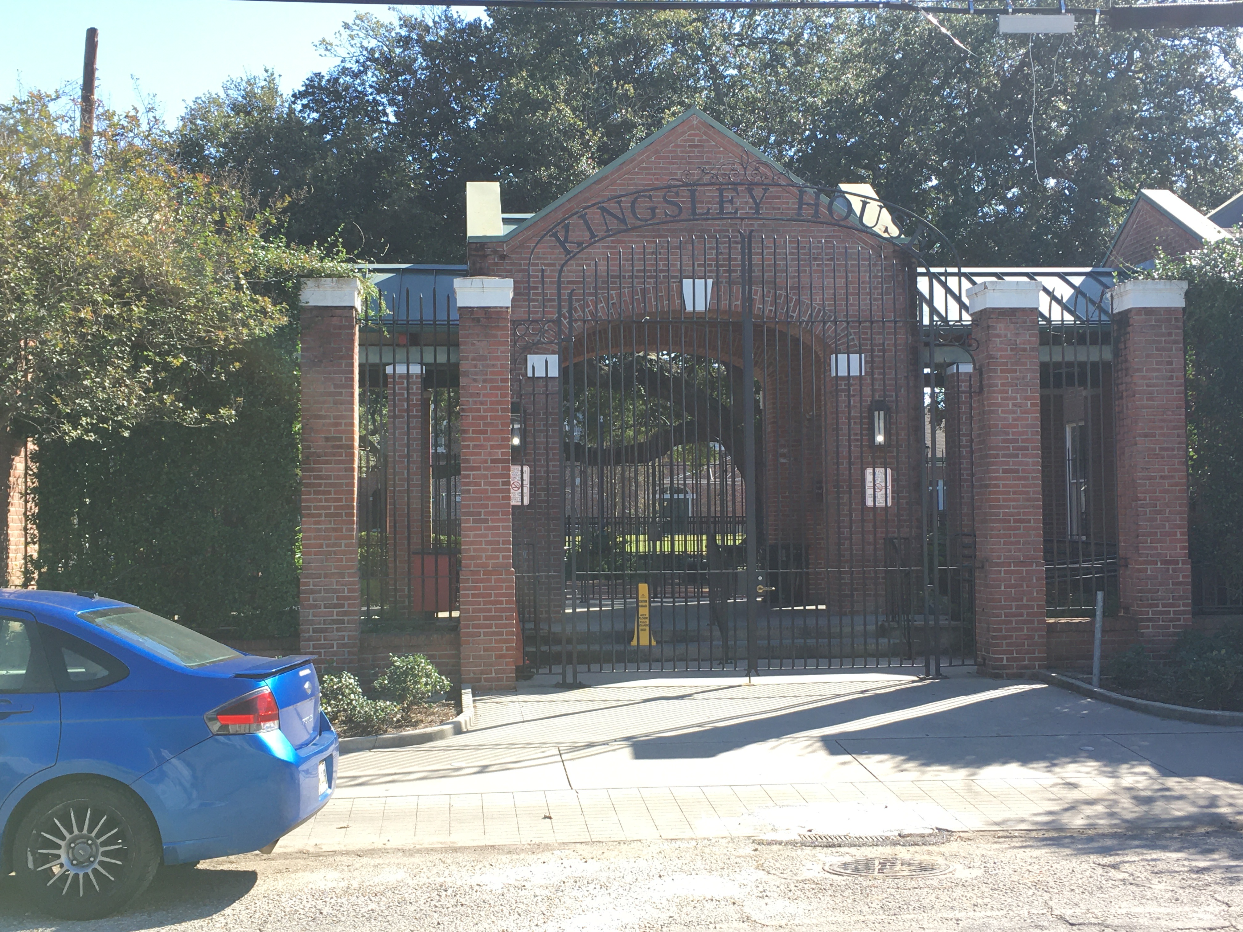 Kingsley House was part of the settlement house movement. In New Orleans, Eleanor McMain was instrumental in founding the Kingsley House that is presently on Constance Street.